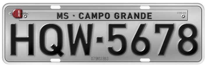 Brazilian identification vehicle plate, until 2008.